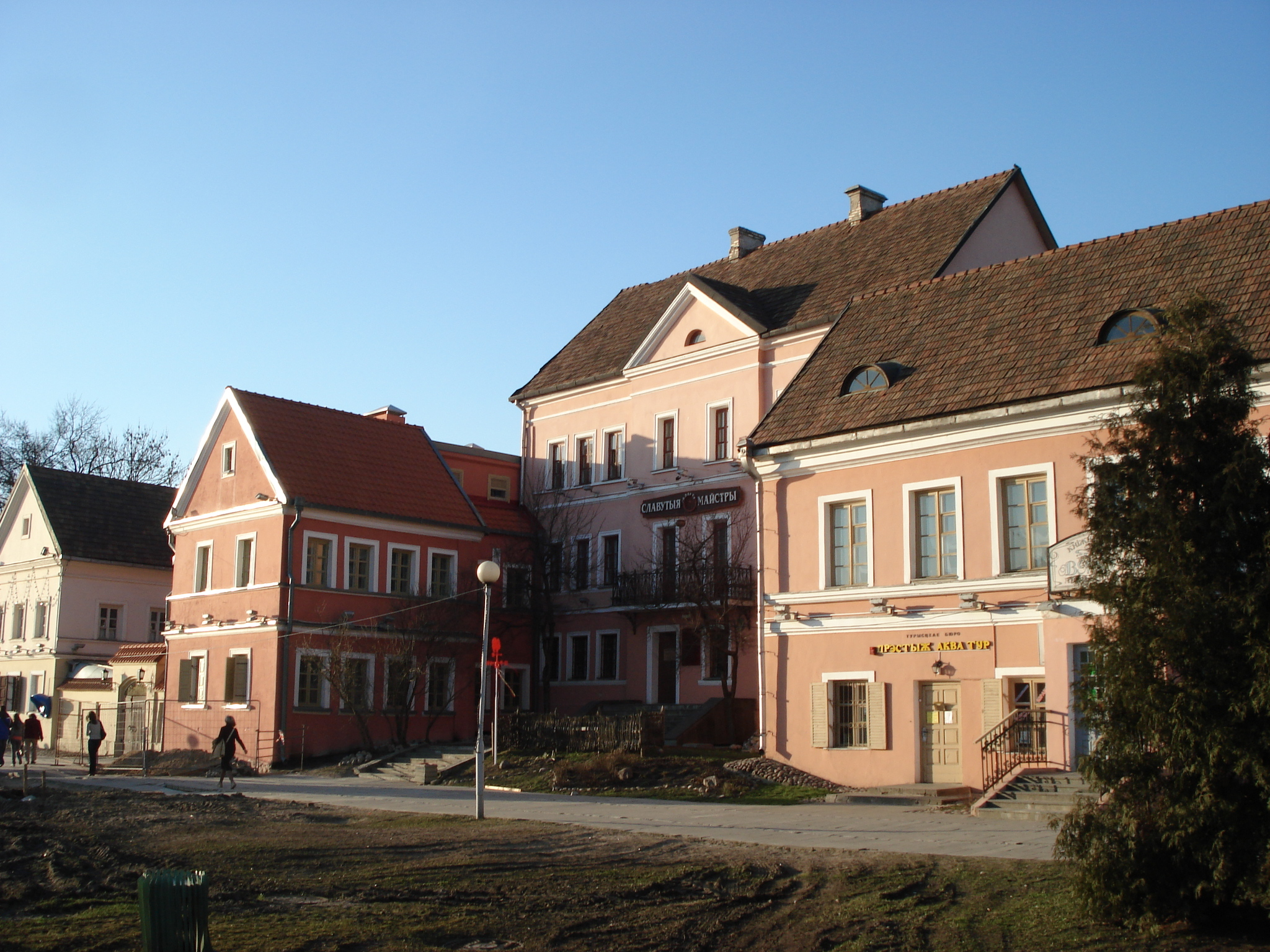 Traeсkaje suburb